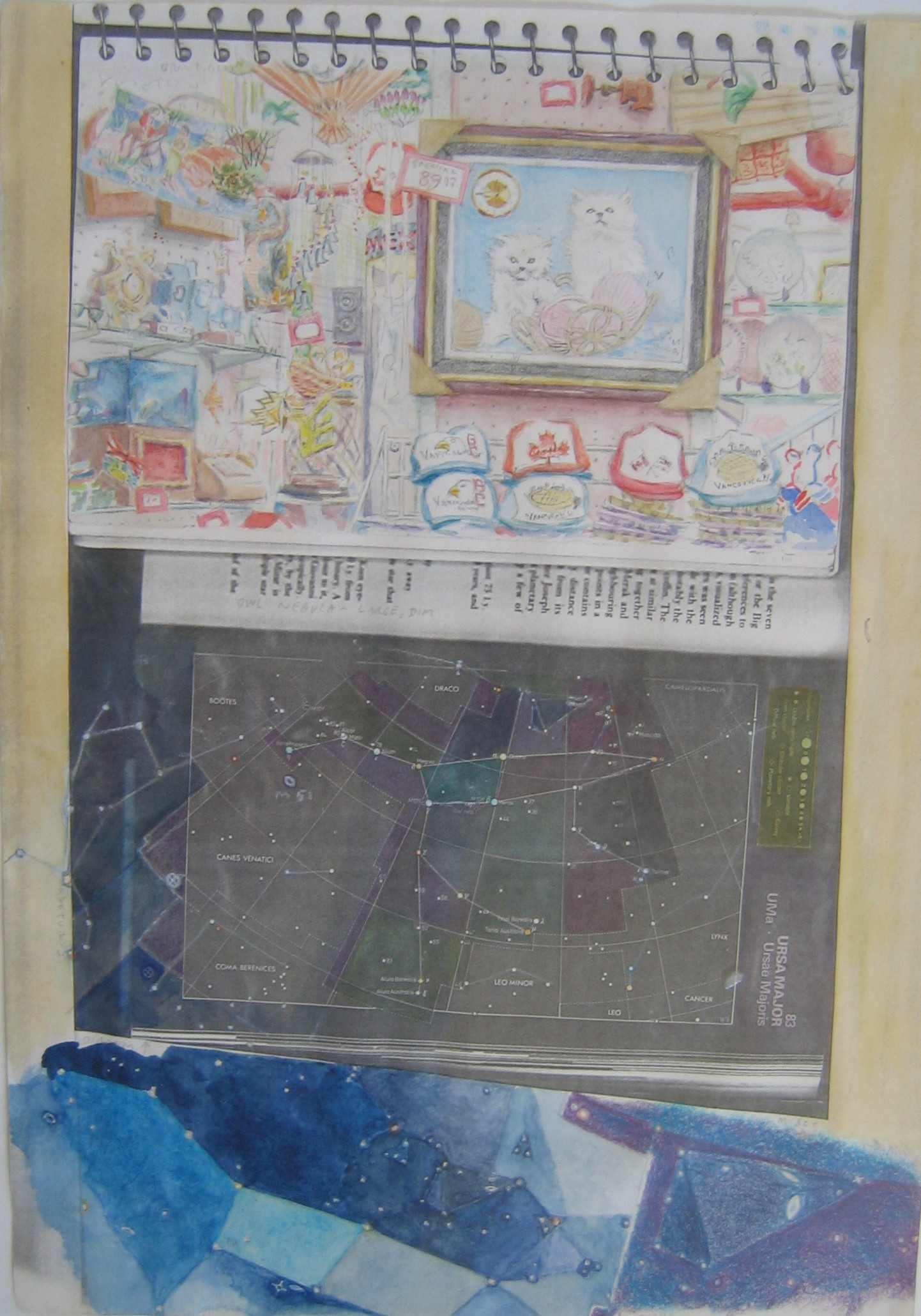 image shows detail of 9 X 16 work on paper by Gordon Rice: watercolor on photocopy of collaged material